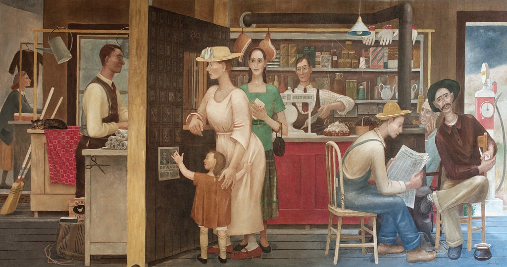 Photograph of mural "General store and post office" by Doris Lee at the Ariel Rios Federal Building, Washington, D.C.